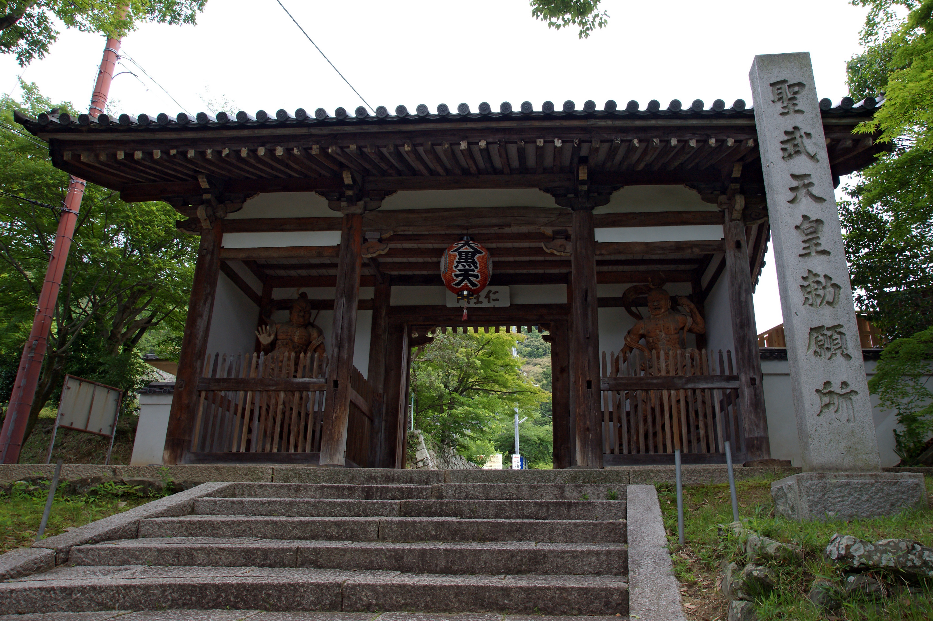 Hoshakuji in Oyamazaki-cho, Otokuni-gun, Kyoto prefecture, Japan